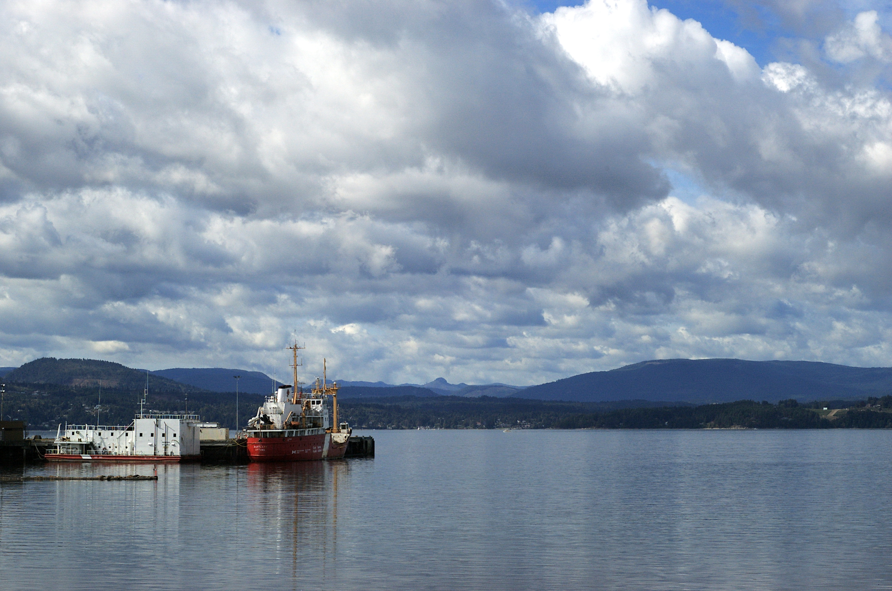 Canadian Coast Guard vessel moored in North Saanich, Vancouver Island, British Columbia.